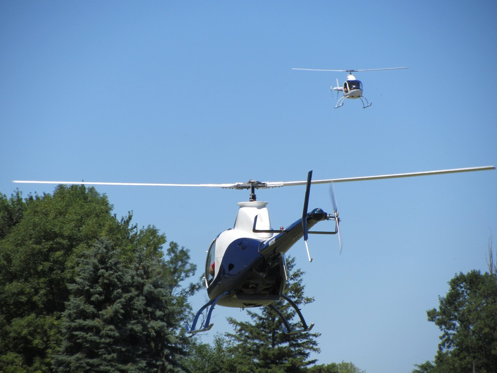 Rotorway Execs in pattern